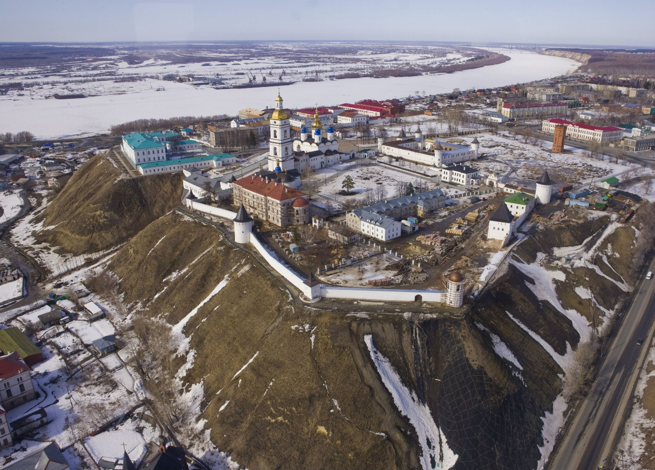 Aerial view of the Tobolsk Kremlin, taken by Russian President Dmitry Medvedev. This photo sold at auction in January 2010 for 51 million rubles (US$1.7 million).